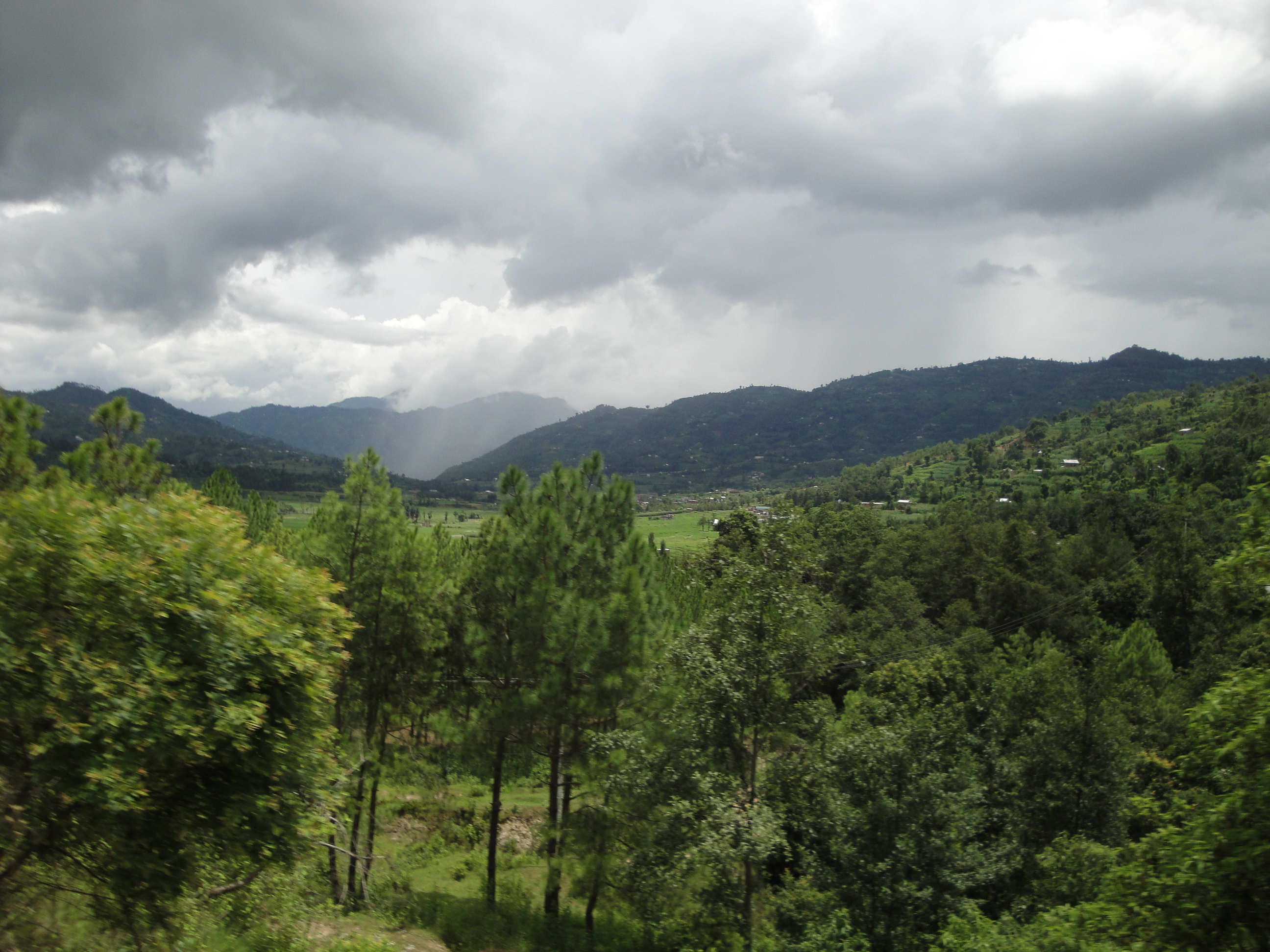 A fertile valley in Kabhrepalanchok district nepal. Picture by:Madhusudan Rayamajhi